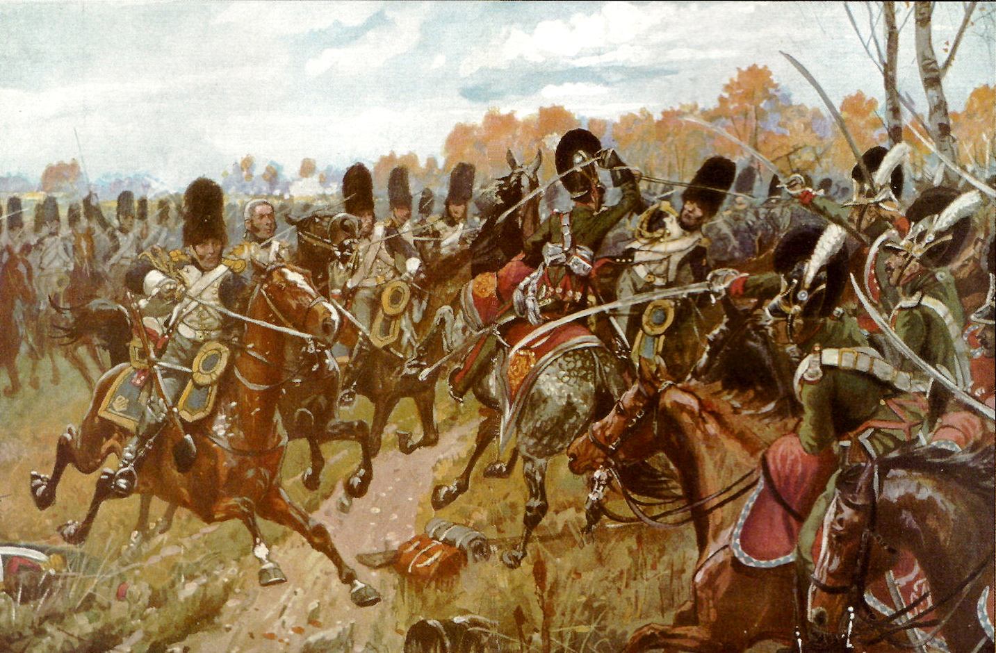 Charge of the Grenadiers-à-Cheval of the Imperial Guard, one of the decisive moments of the battle of Hanau in 1813